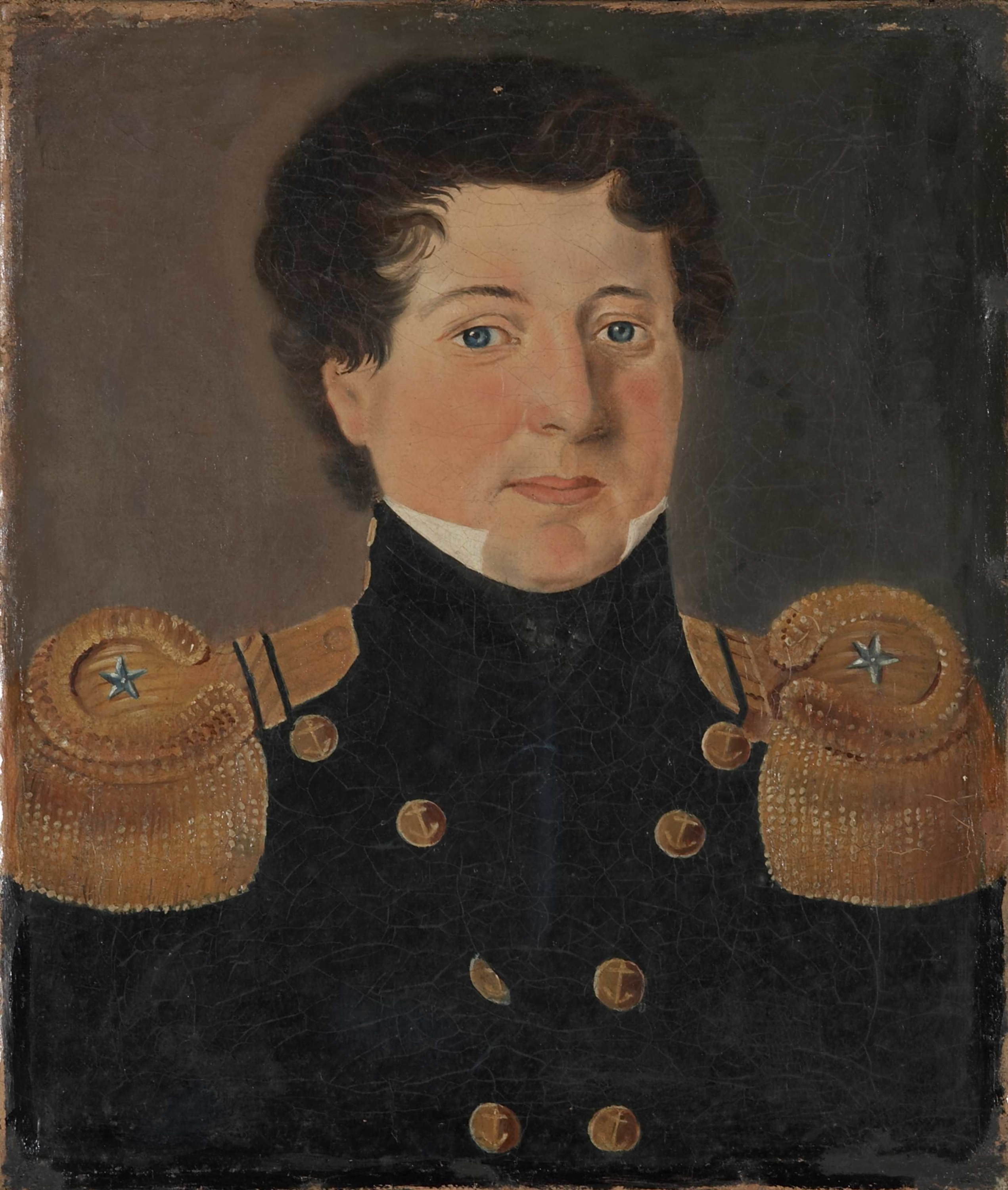 Portrait of Christopher Budde, officer at SS Constitutionen, the first steamship of Norway.